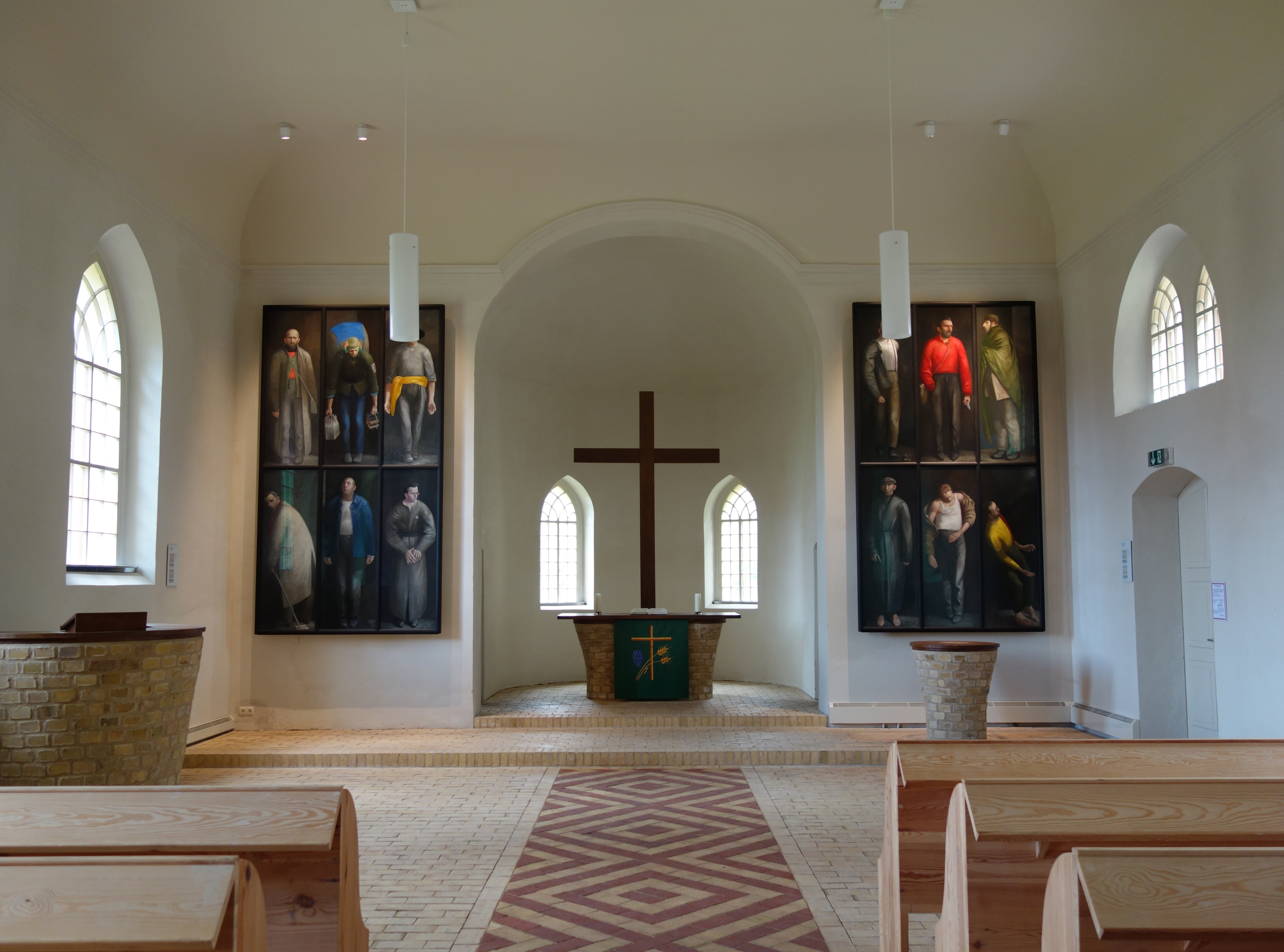 Eastern interior of church in Zeestow, Brieselang municipality, Havelland district, Brandenburg state, Germany